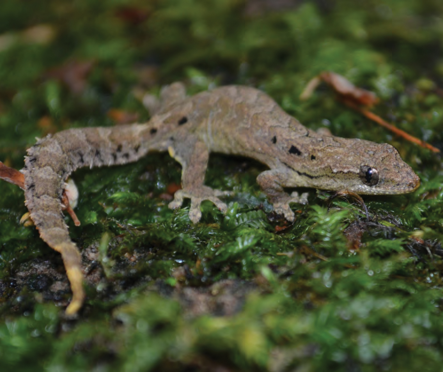 Lepidodactylus cf. lugubris (KU 330065) from the forested crater of Mt. Cagua. Photo: JS.